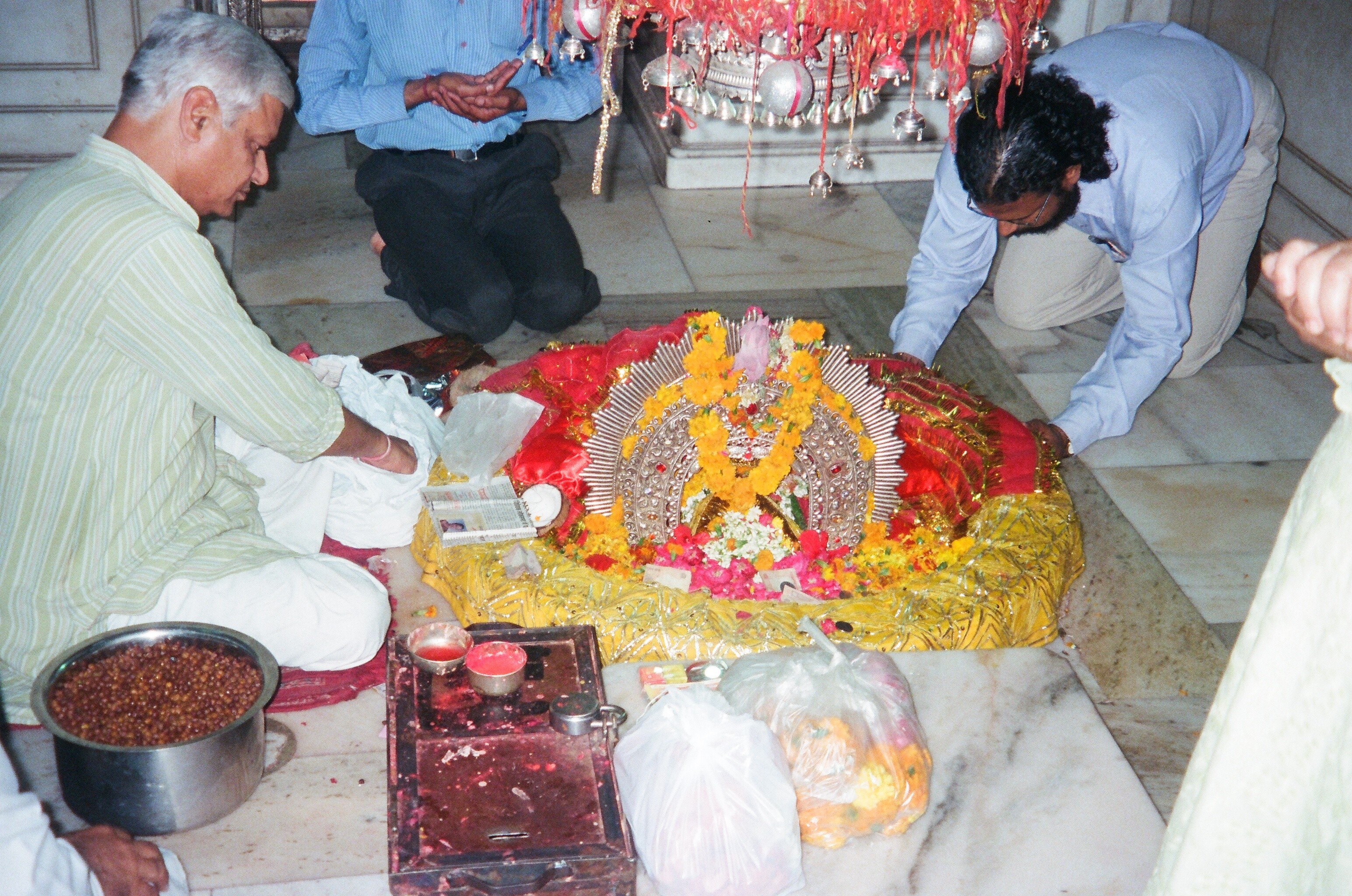 Yogmaya Idol in Sanctum of the historic Yogmaya Temple in Mehrauli, Delhi